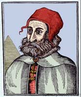 "Roman Knowledge about the Body and Disease." BBC News. BBC, n.d. Web. 07 Dec. 2015. .